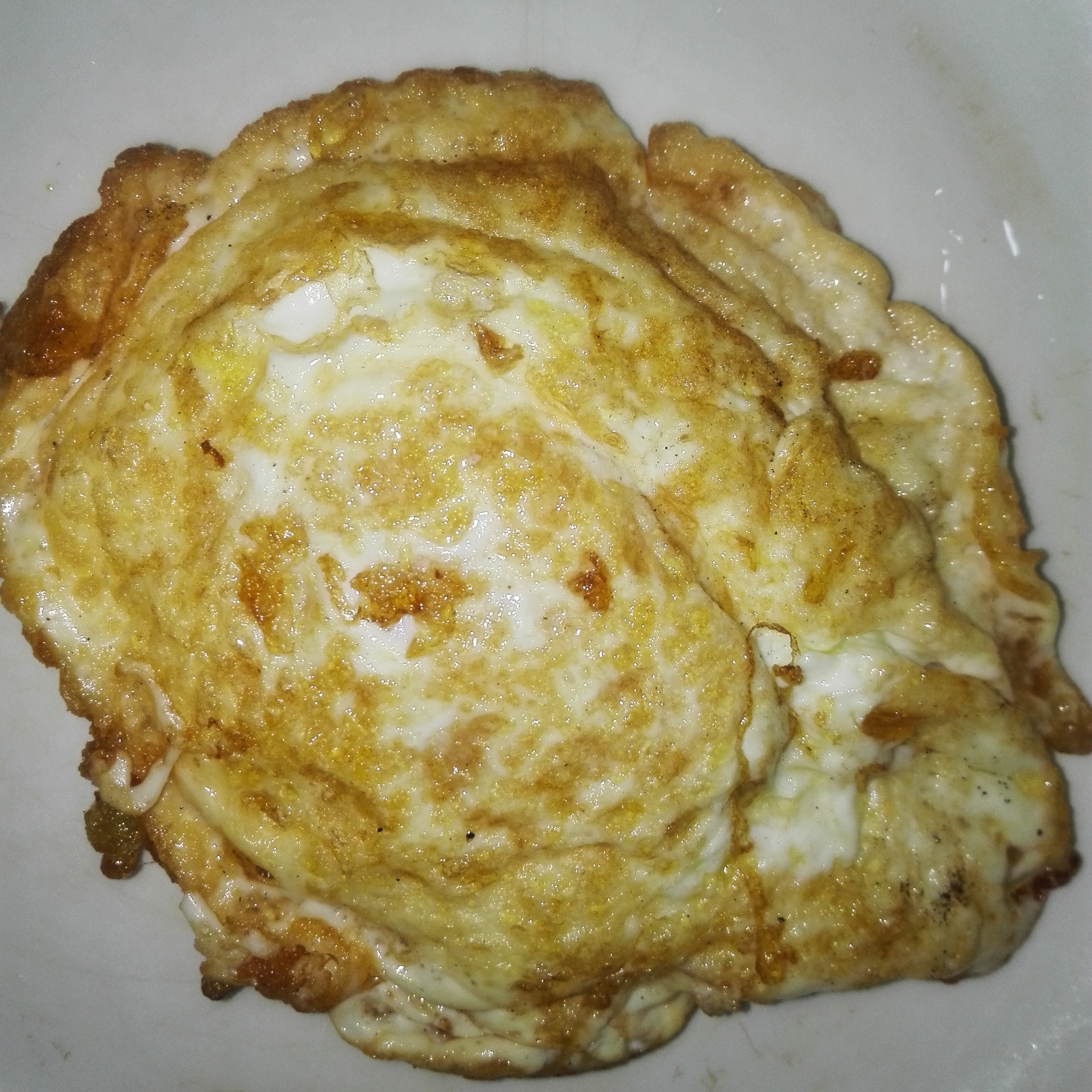 poached egg in Bangladesh